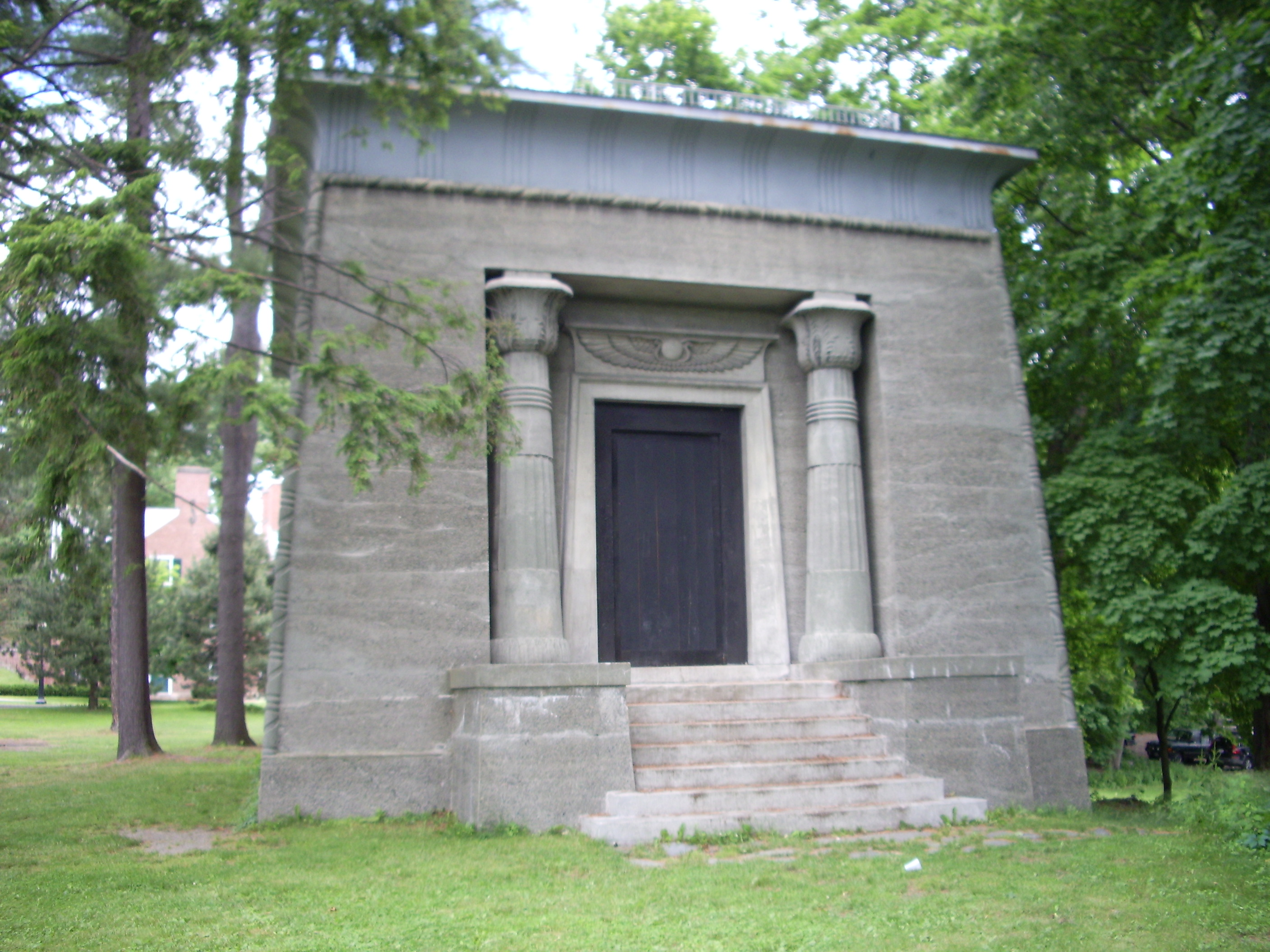 Photograph of the Sphinx at the campus of Dartmouth College in Hanover, New Hampshire.